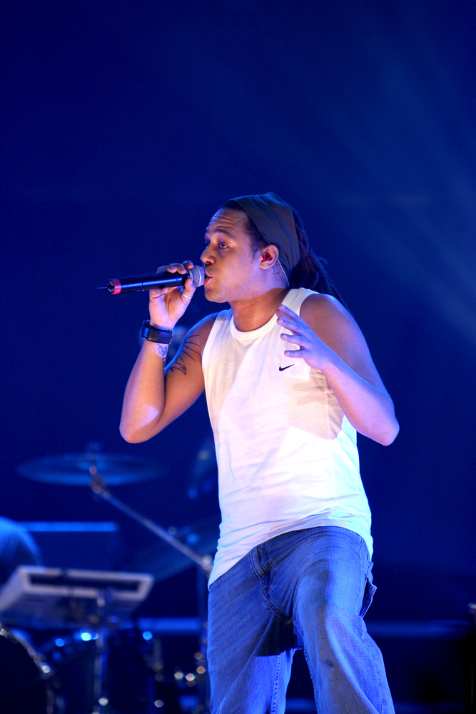 Da Weasel is a Portuguese hip-hop band from Almada